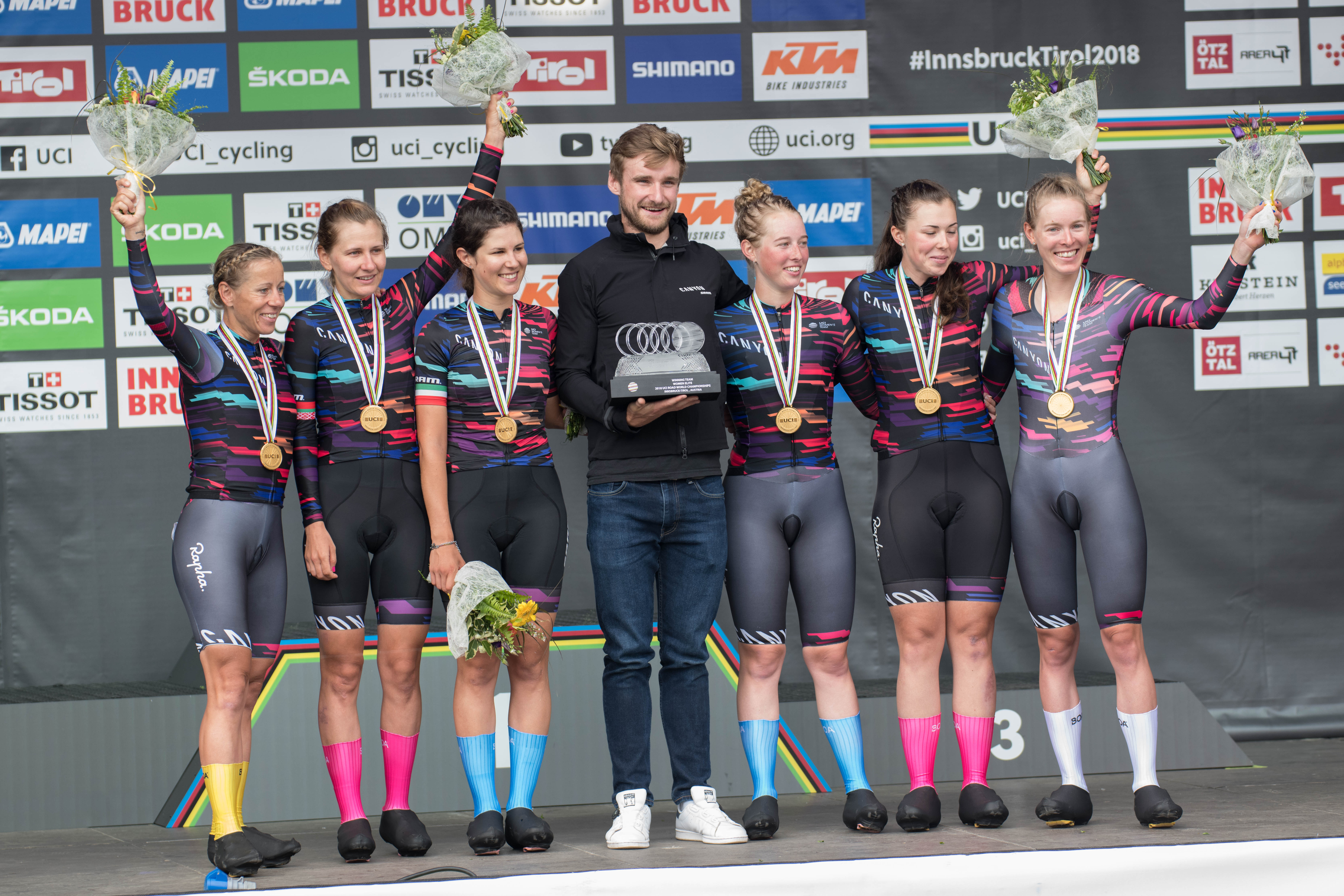 2018 UCI Road World Championships Innsbruck/Tirol Women's Team Time Trial. Picture shows: Award Ceremony Women's Team Time Trial, Winner Team Canyon SRAM with Alena Amialiusik, Alice Barnes, Elena Cecchini, Lisa Klein and Trixi Worrack